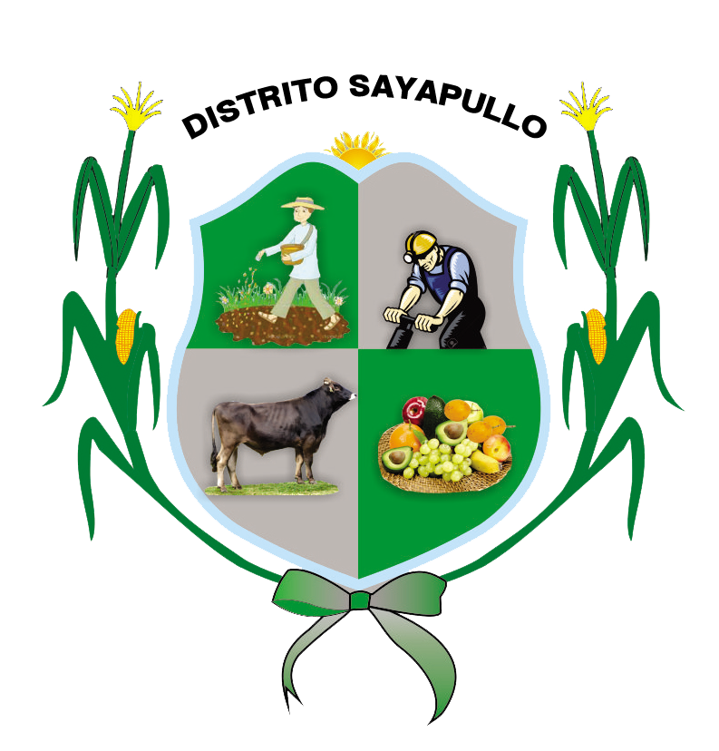 Escudo de Sayapullo